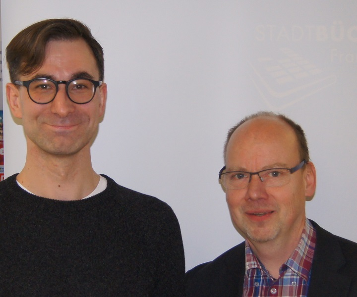 author Tijan Sila and publisher Ulrich Wellhöfer (right side)